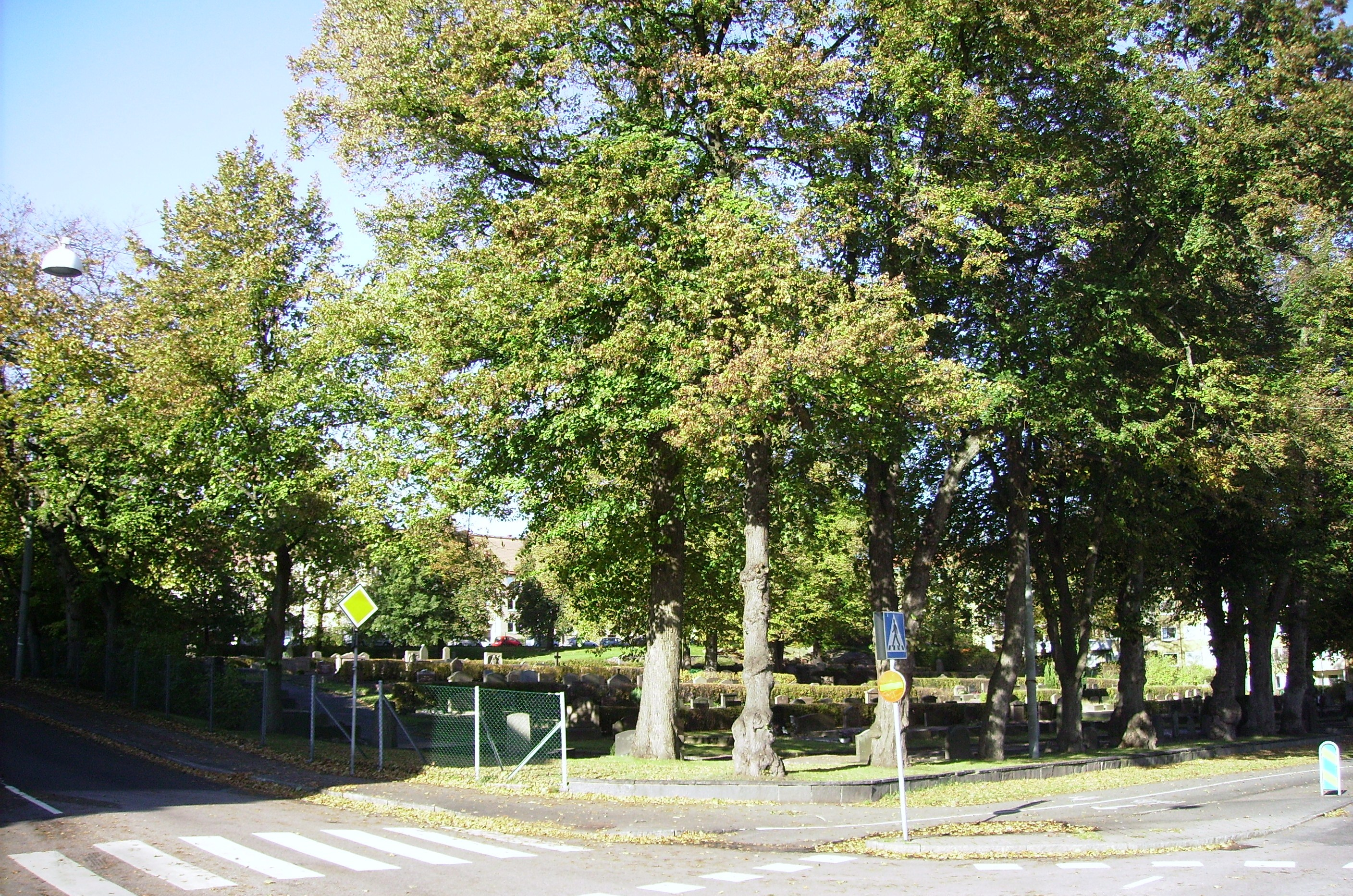 Picture of Tåns kyrkogård in Göteborg